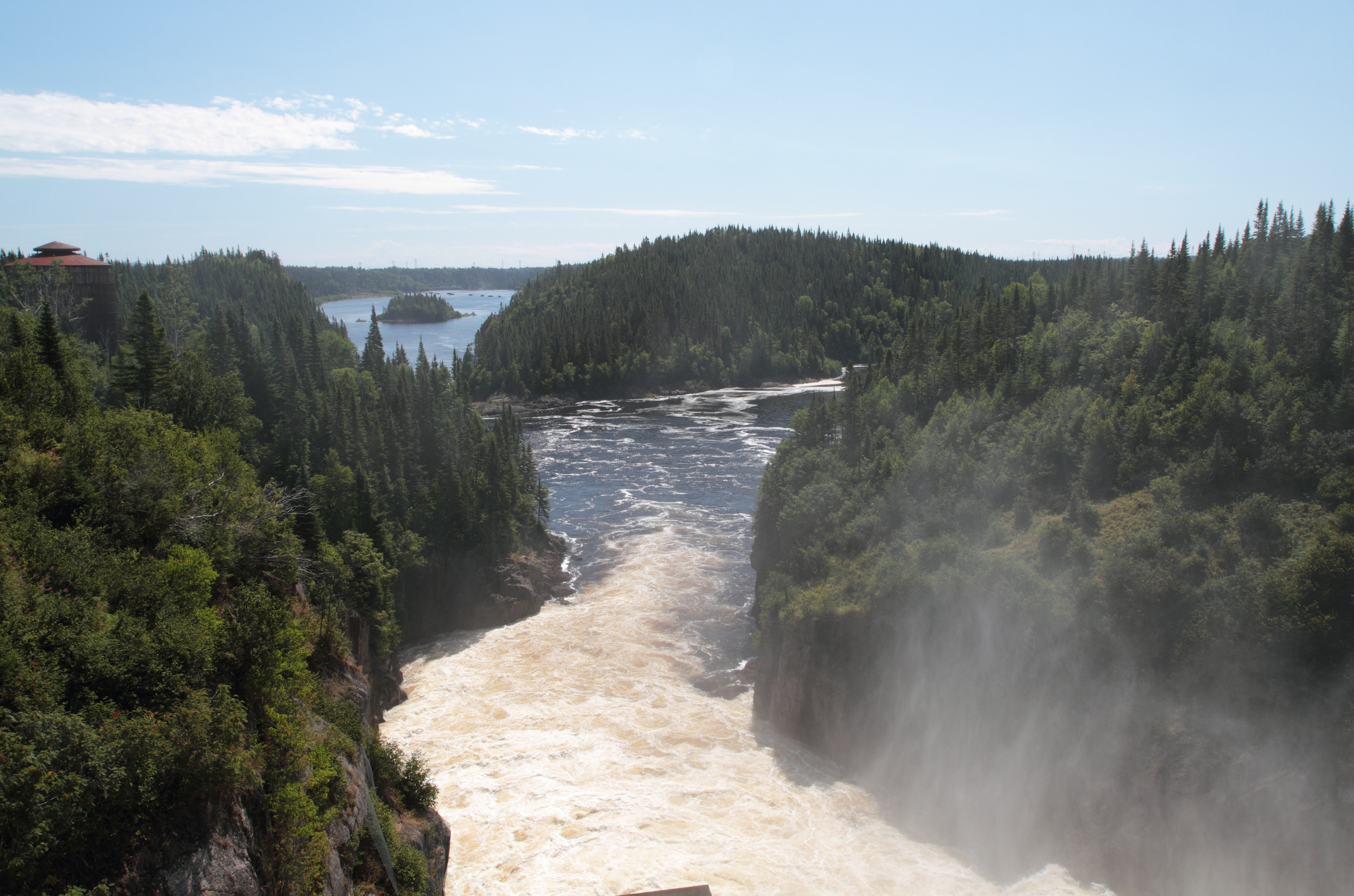 Sainte-Marguerite river, downstream of Sainte-Marguerite 2 Dam, Sept-Îles, Quebec, Canada